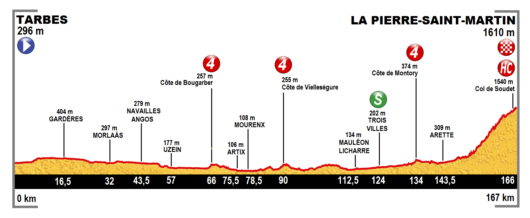 Profile of the 10th stage of the Tour de France 2015